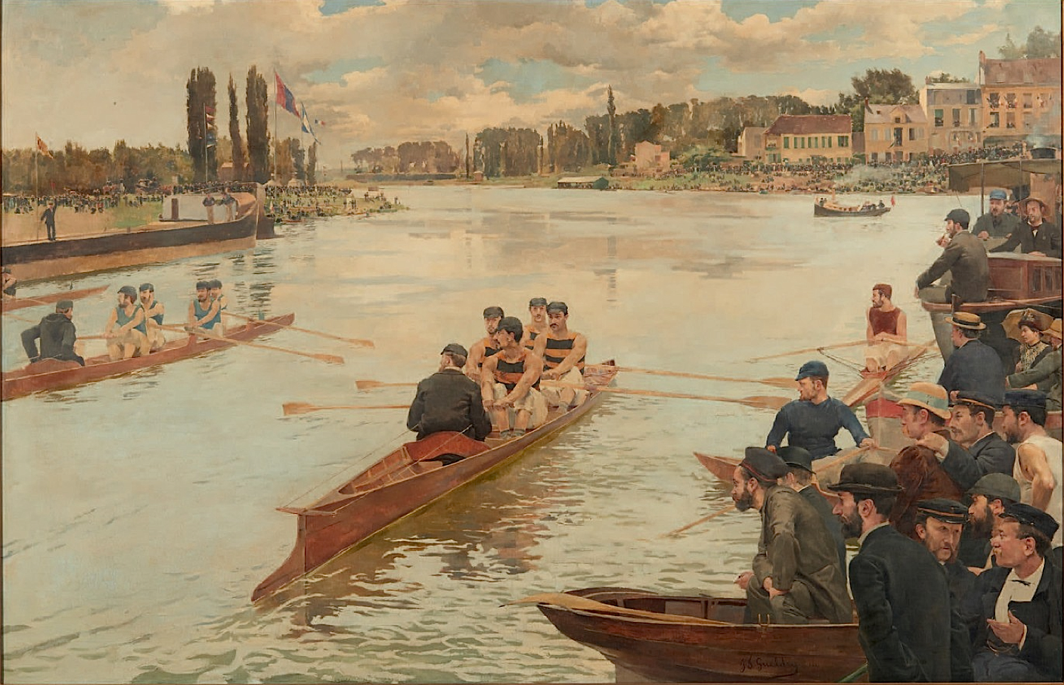 Une Régate à Joinville — Le Départ, oil on canvas by Ferdinand Gueldry. Dim. : 131 x 203 cm. Former owner : Pierre-Yves Le Diberder. Private collection (Paris).